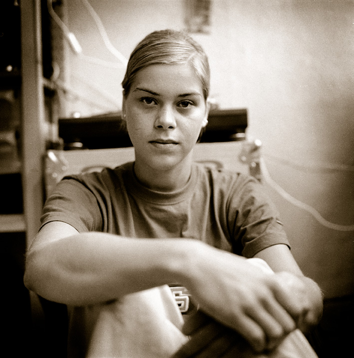 Berlin 2001